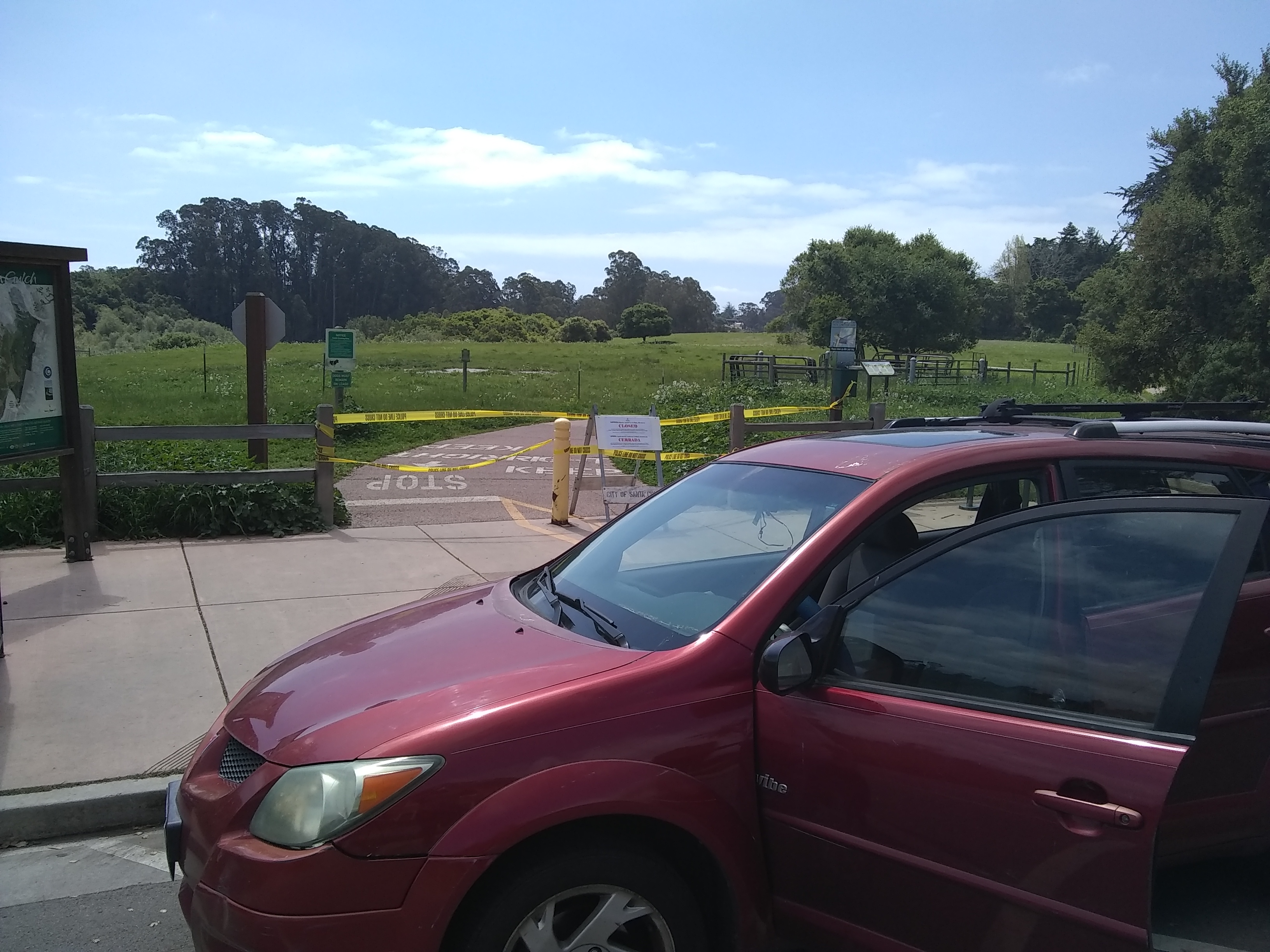 2020-04-10 Closure of Arana Gulch - Agnes St entrance, responding to the COVID-19 pandemic, reducing the rate of transmission during a holiday period